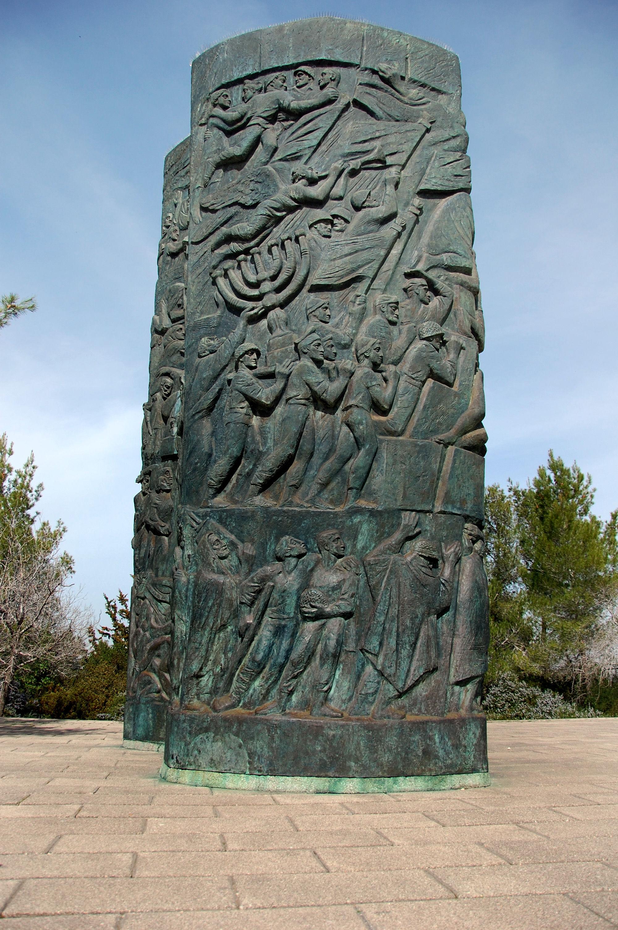 scrolls of fire, near jerusalem